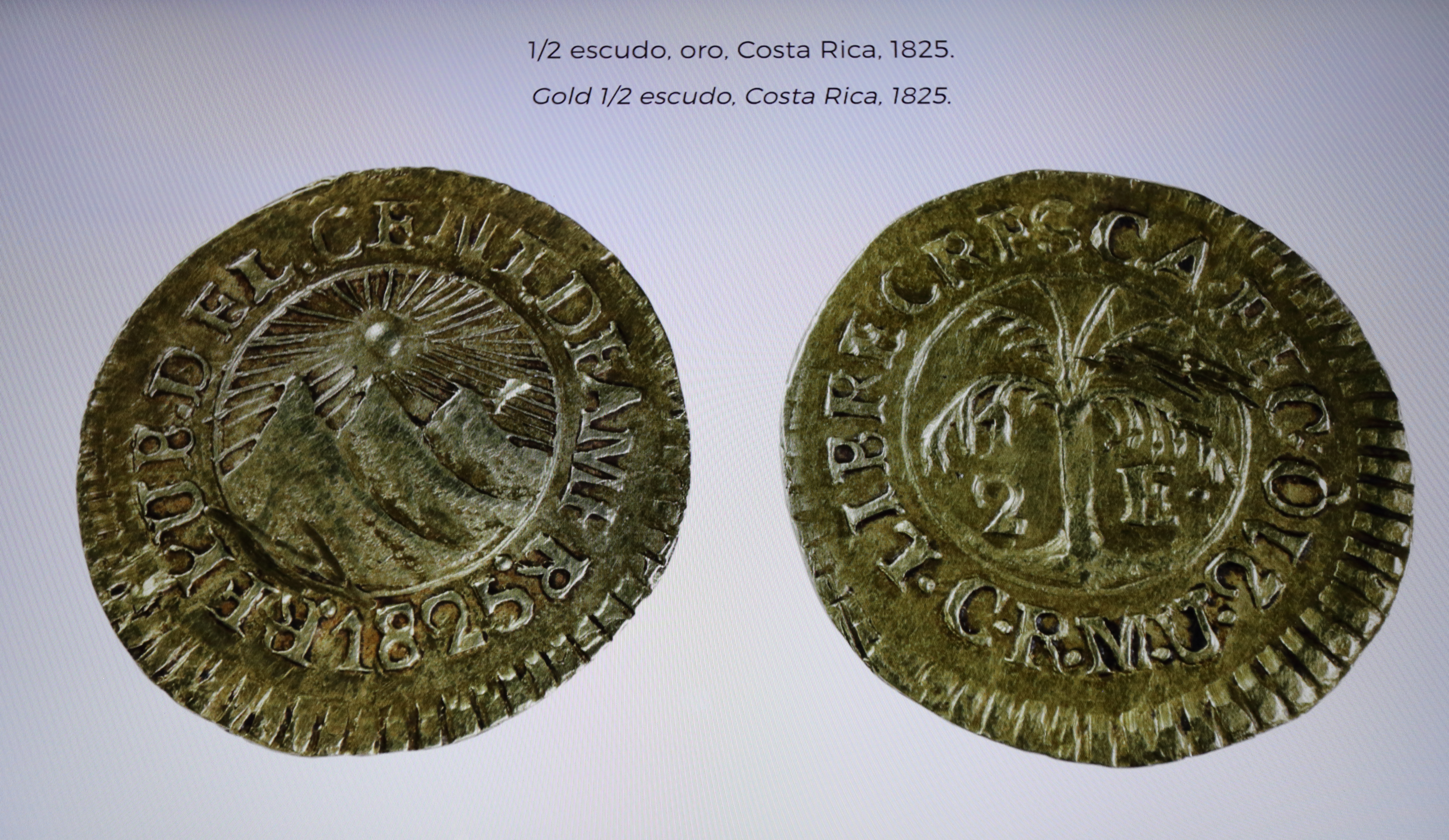 Gold 1/2 escuodo, Costa Rica, 1825 (picture of a picture on a monitor).